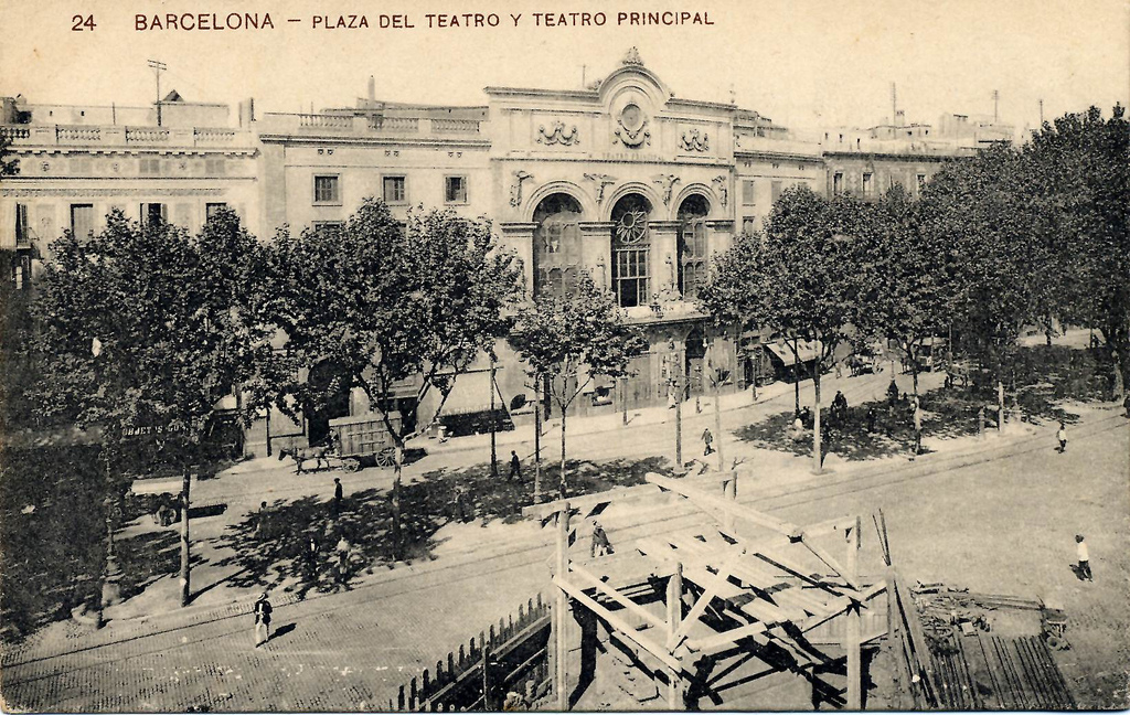 Rambla and Teatre Principal, at Barcelona, ca. 1830.